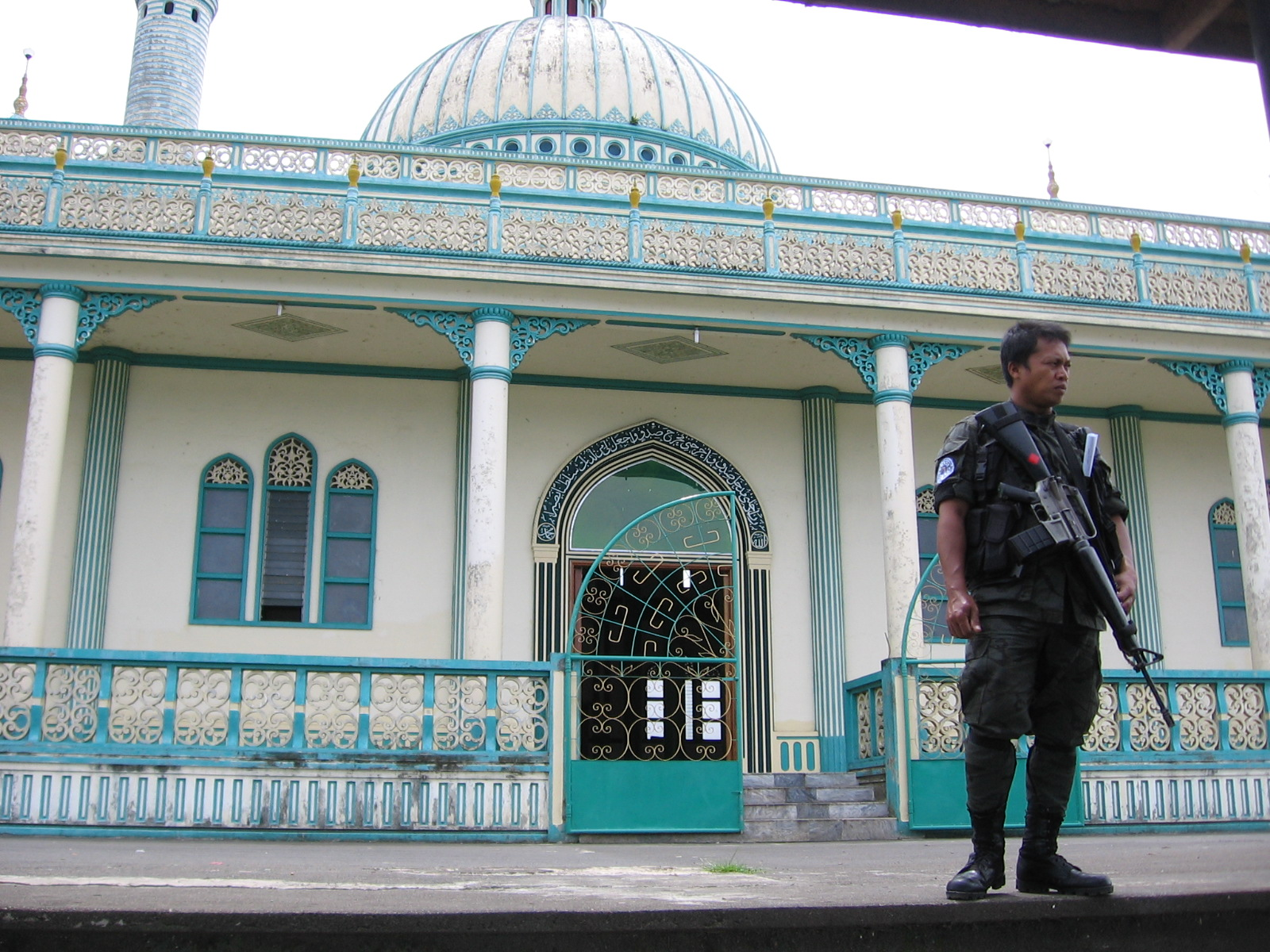 A soldier stands outside the Masjid Bacolod in Bacolod-Kalawi, Lanao del Sur